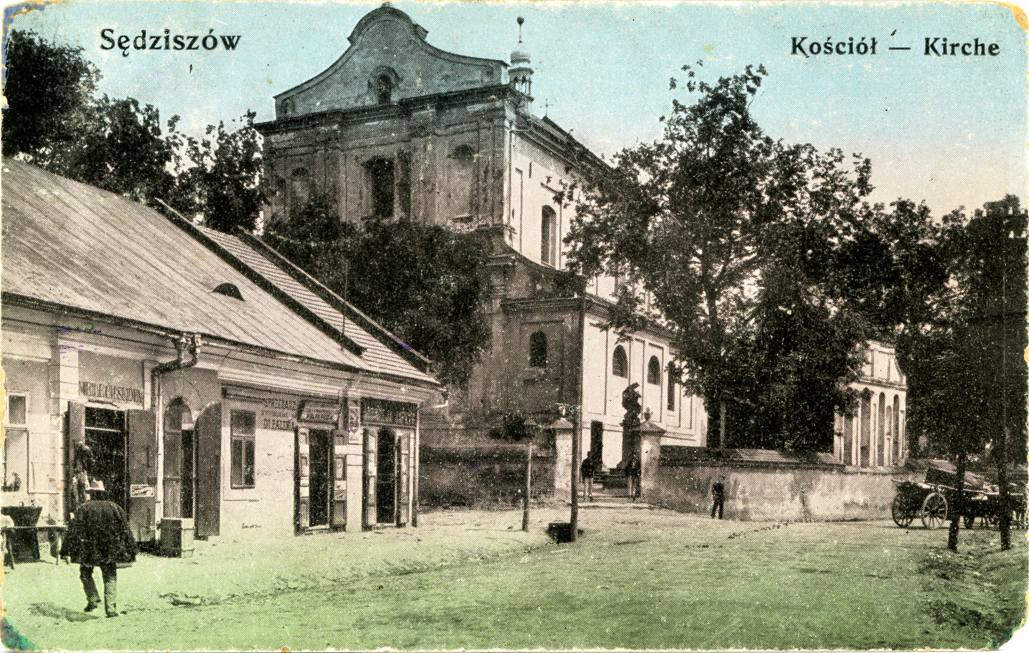 Postcard since beginning of 20th centry, The Most Holy Virgin Mary's Church in Sędziszów Małopolski, Poland